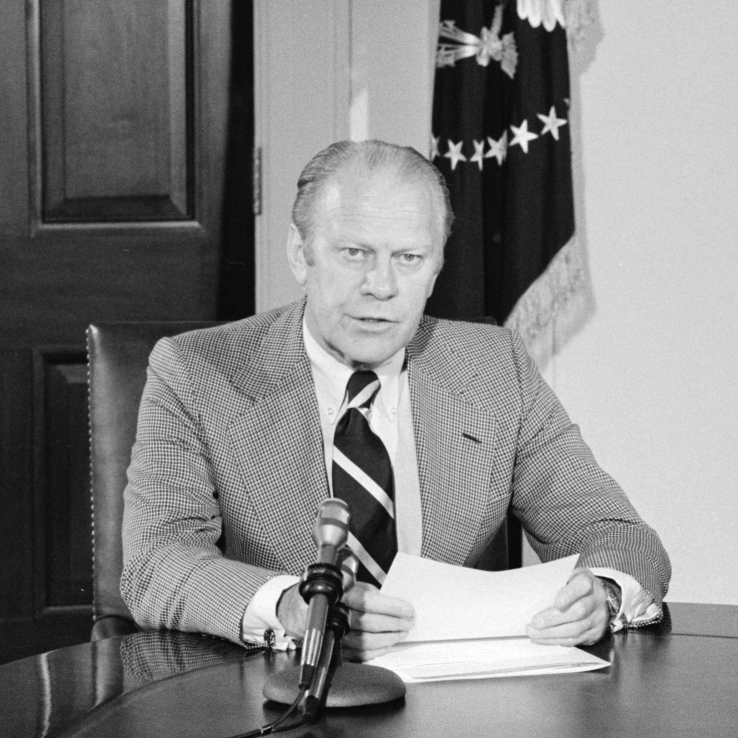 TITLE: [President Gerald Ford announcing amnesty for draft evaders at the White House, Washington, D.C.] CALL NUMBER: LC-U9- 30134A-5 [P&P] REPRODUCTION NUMBER: LC-DIG-ppmsca-08536 (digital file from original negative) No known restrictions on publication. MEDIUM: 1 negative : film. CREATED/PUBLISHED: 1974 Sep. 16. NOTES: Title devised by Library staff. Contact sheet folder caption: President Ford making statement about amnesty for draft evaders and signing three amnesty documents. TOH. U.S. News & World Report Magazine Photograph Collection. Contact sheet available for reference purposes. SUBJECTS: Ford, Gerald R., 1913---Public appearances--Washington (D.C.) Draft resisters--1970-1980. Amnesty--1970-1980. FORMAT: Film negatives 1970-1980. REPOSITORY: Library of Congress Prints and Photographs Division Washington, D.C. 20540 USA DIGITAL ID: (original) ppmsca 08536 CARD #: 2005684076.